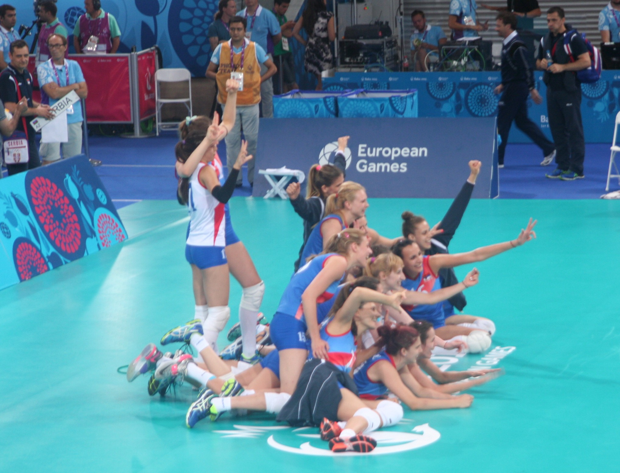 Serbia women's volleyball are the bronze medalists of the 2015 European Games